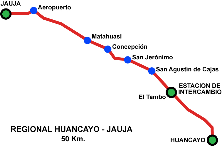 Huancayo regional rail